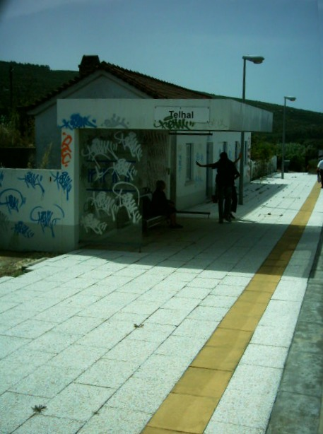 Telhal railway station